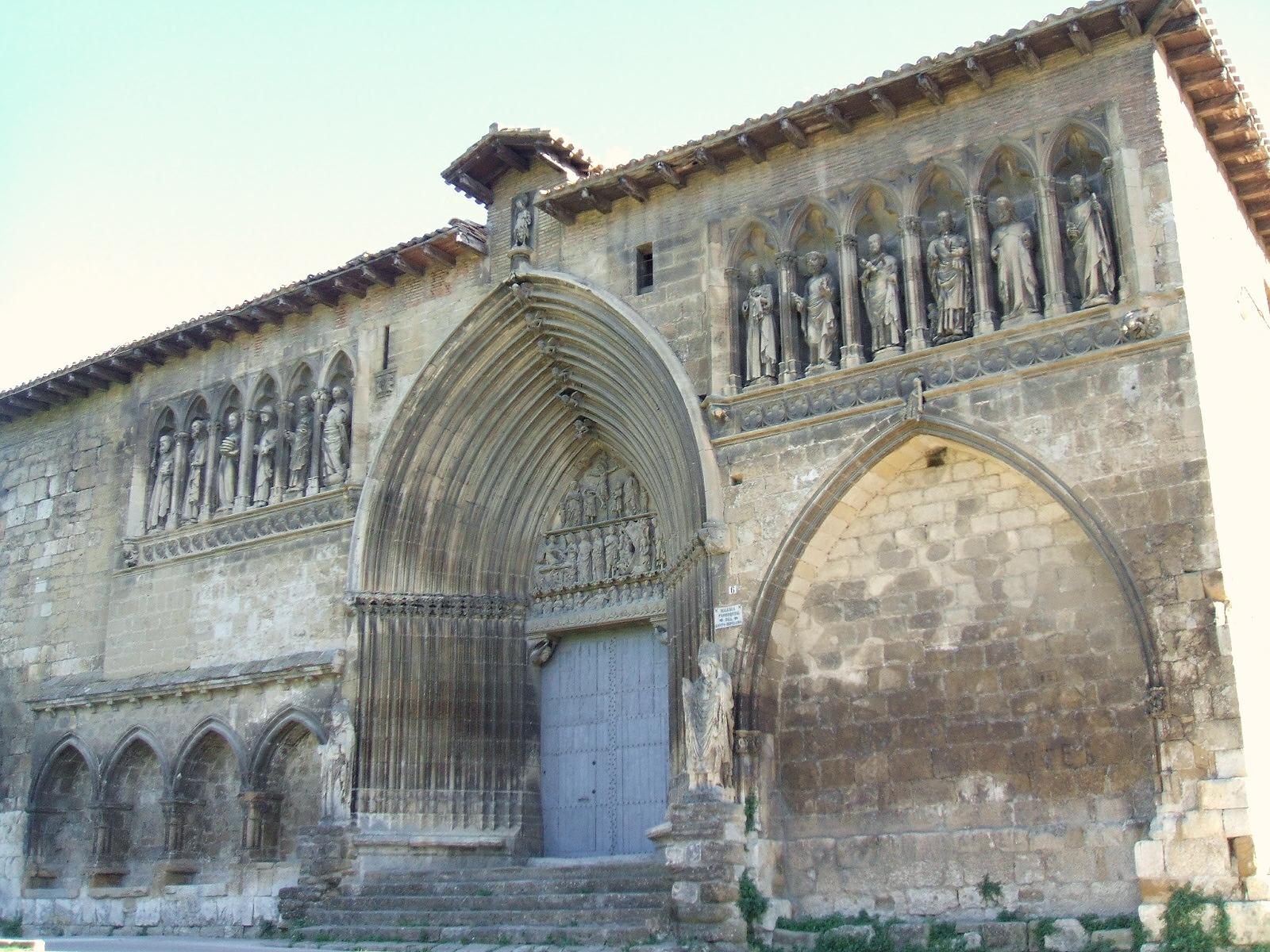 Iglesia del Santo Sepulcro, en Estella (Navarra, España)